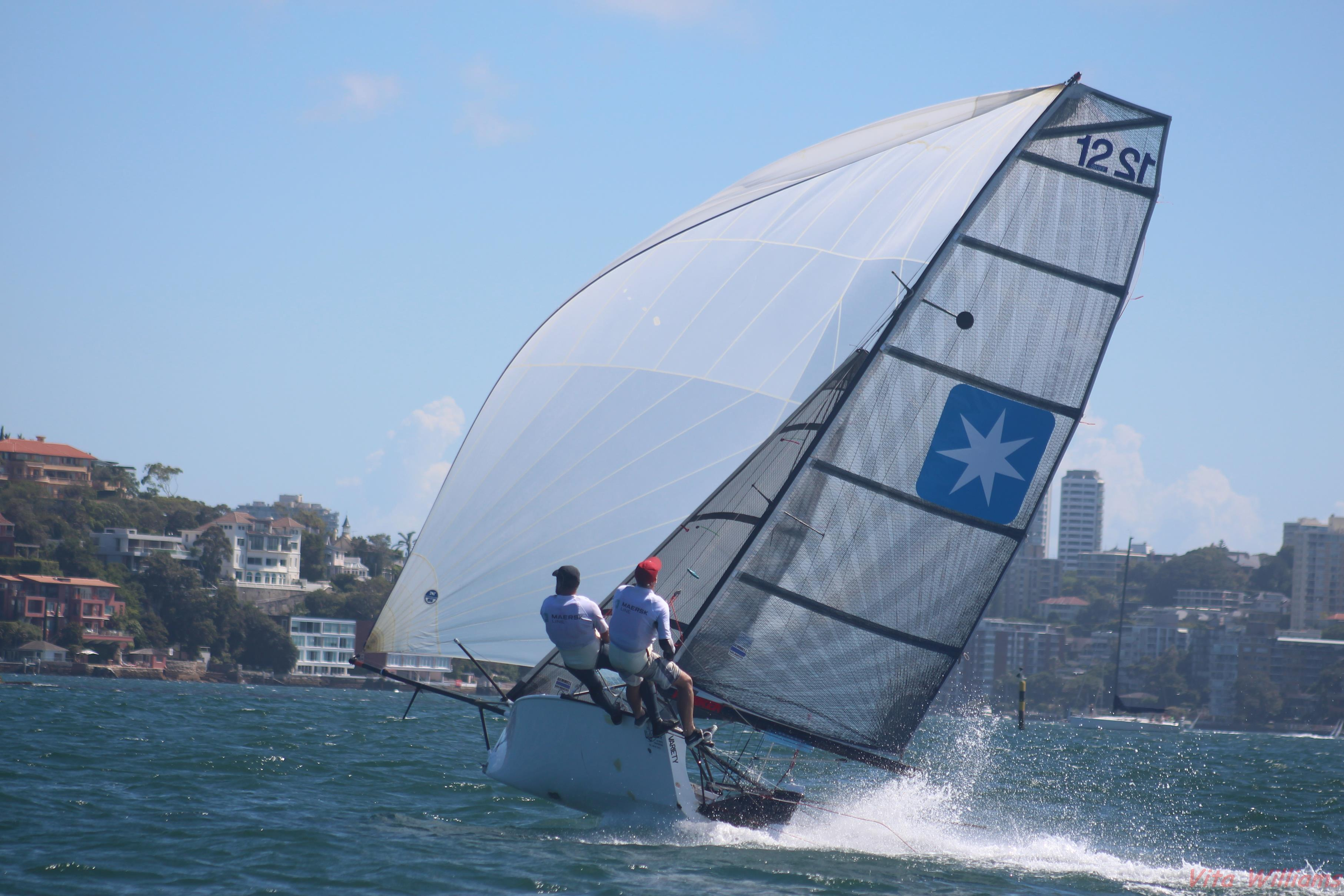 Maersk Line 12ft Skiff on Sydeny Harbour